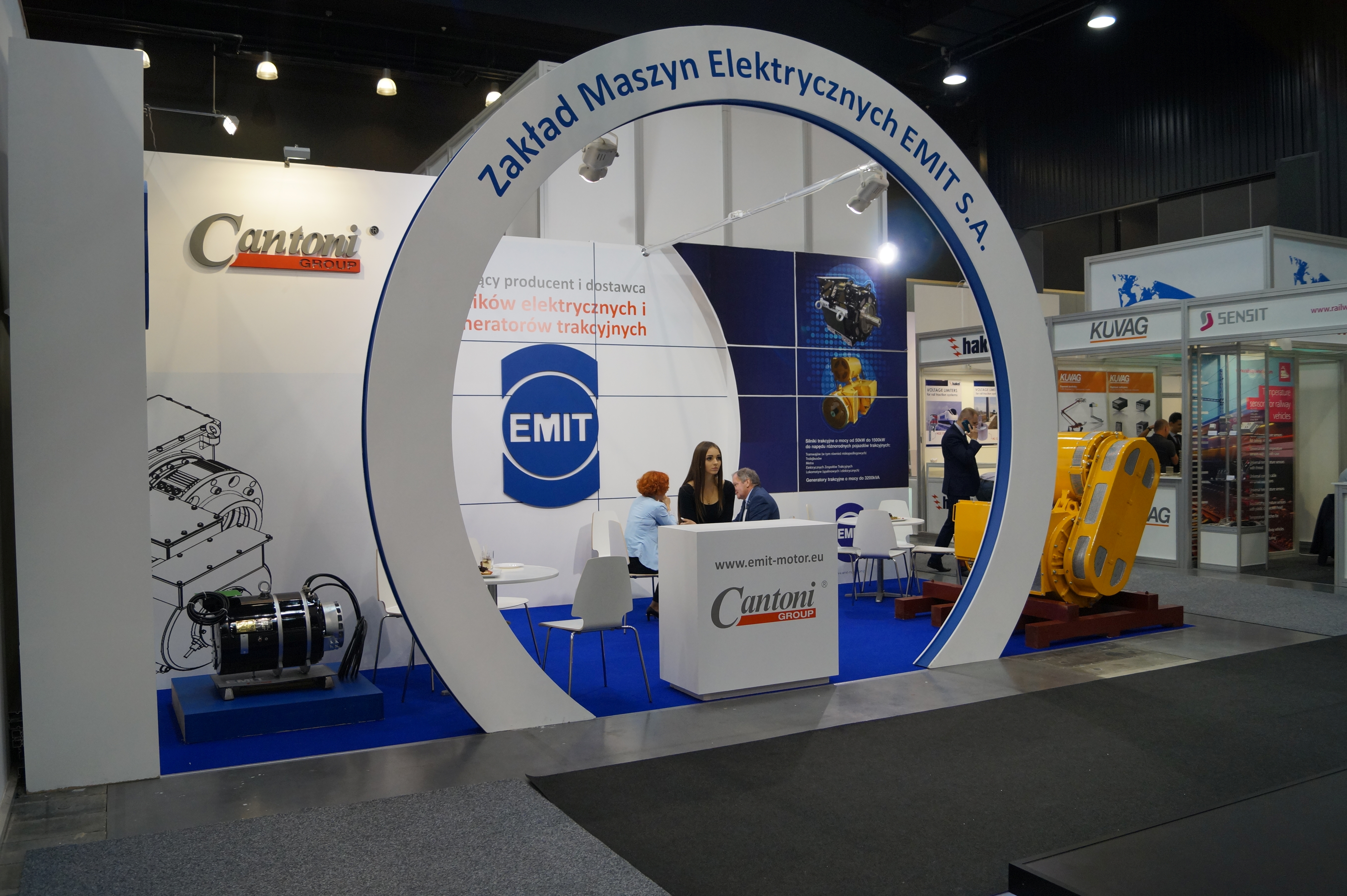 The making of this document was supported by Wikimedia Polska Association, within Wikigrant no. WG 2015-34. English | polski | +/− Stoisko Emit Żychlin na Targach Trako 2015